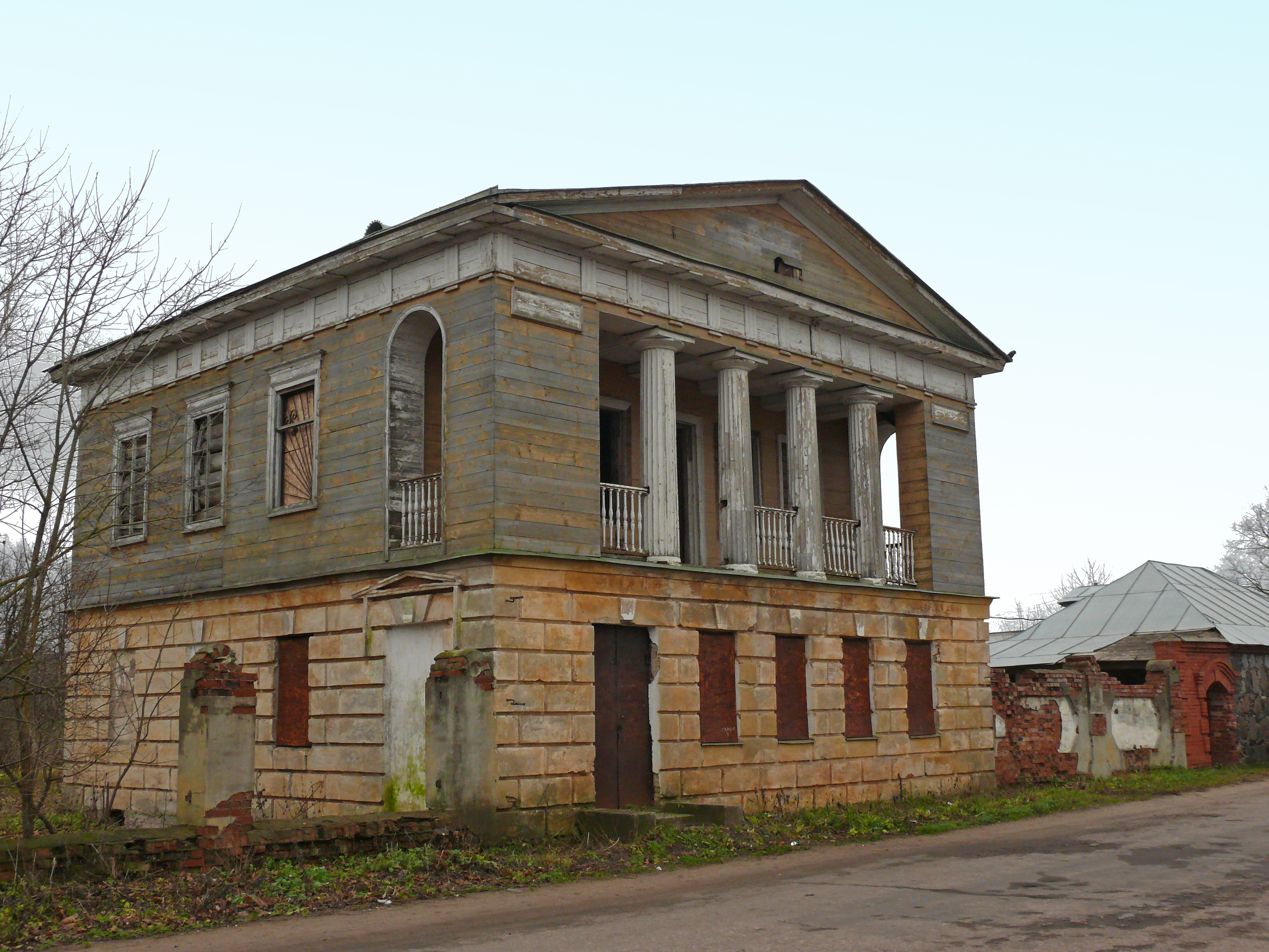 The Putevoi dvorets (road palace) in Korostyn village. Shimsky district, Novgorod oblast, Russia